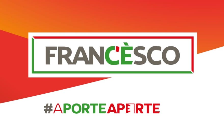 Francesco Boccia logo.